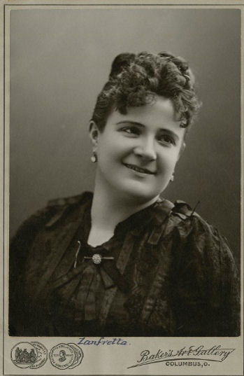 Carte de visite of high-wire dancer Marietta Zanfretta (1832-1898)